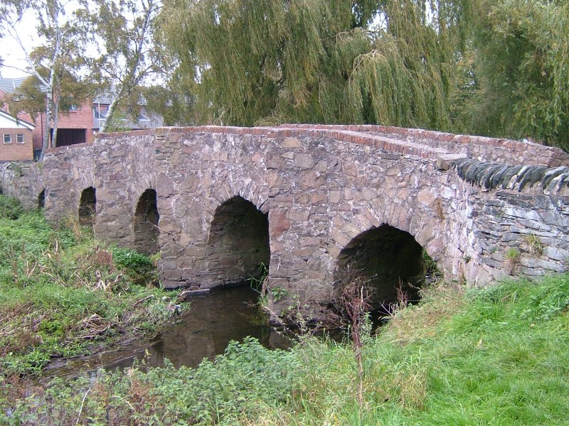 Packhorse Bridge, Anstey, Leicestershire